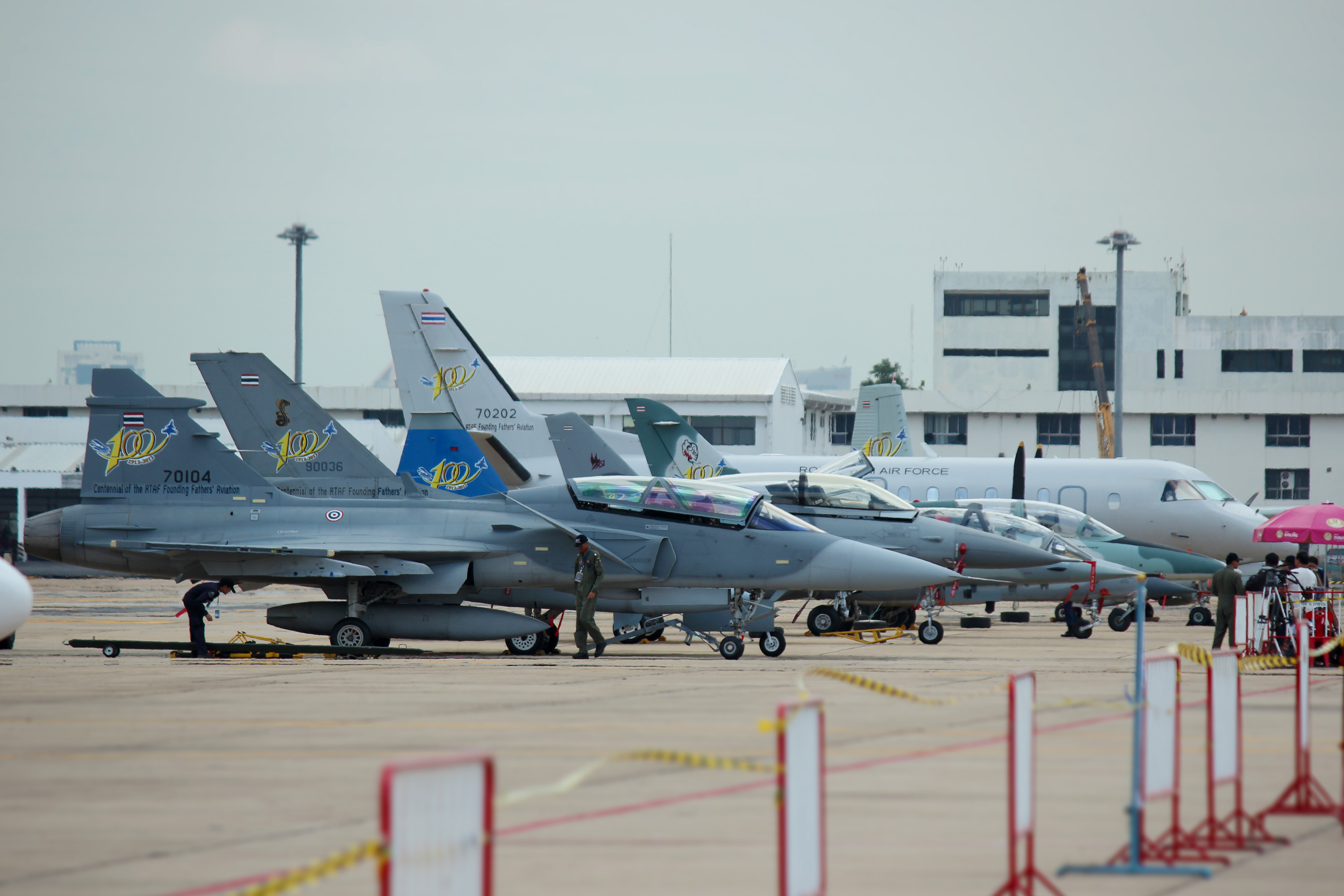 RTAF : Jas39 Gripen, F-16 ADF, F-5, Alfa Jet , L-39 , SAAB-340